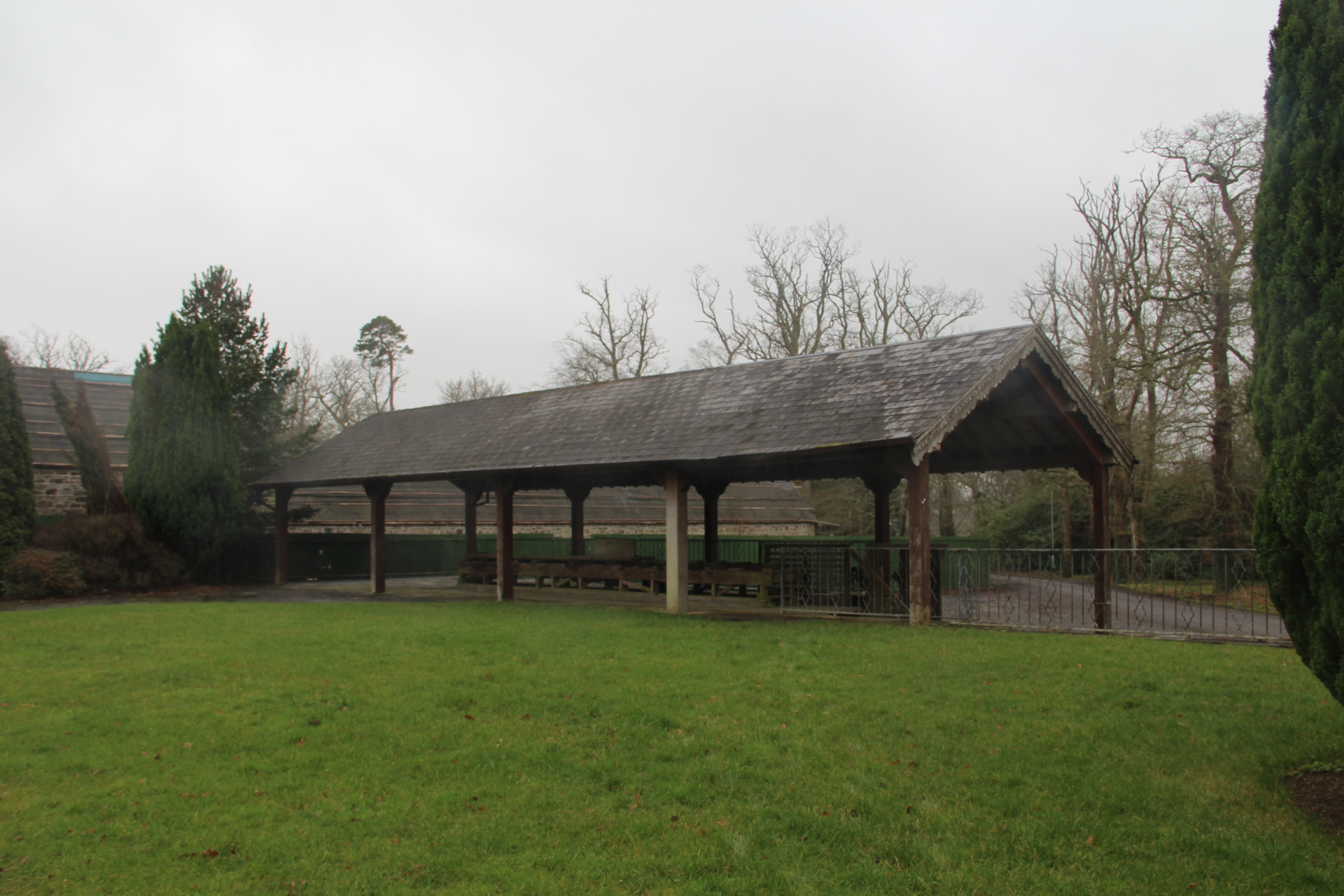 Nineteenth-century estate sawmill